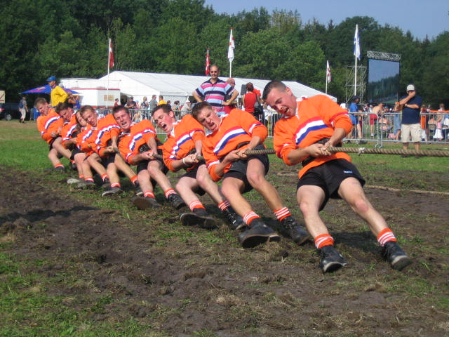 Netherlands tug of war youth team, World Championships held in Assen.